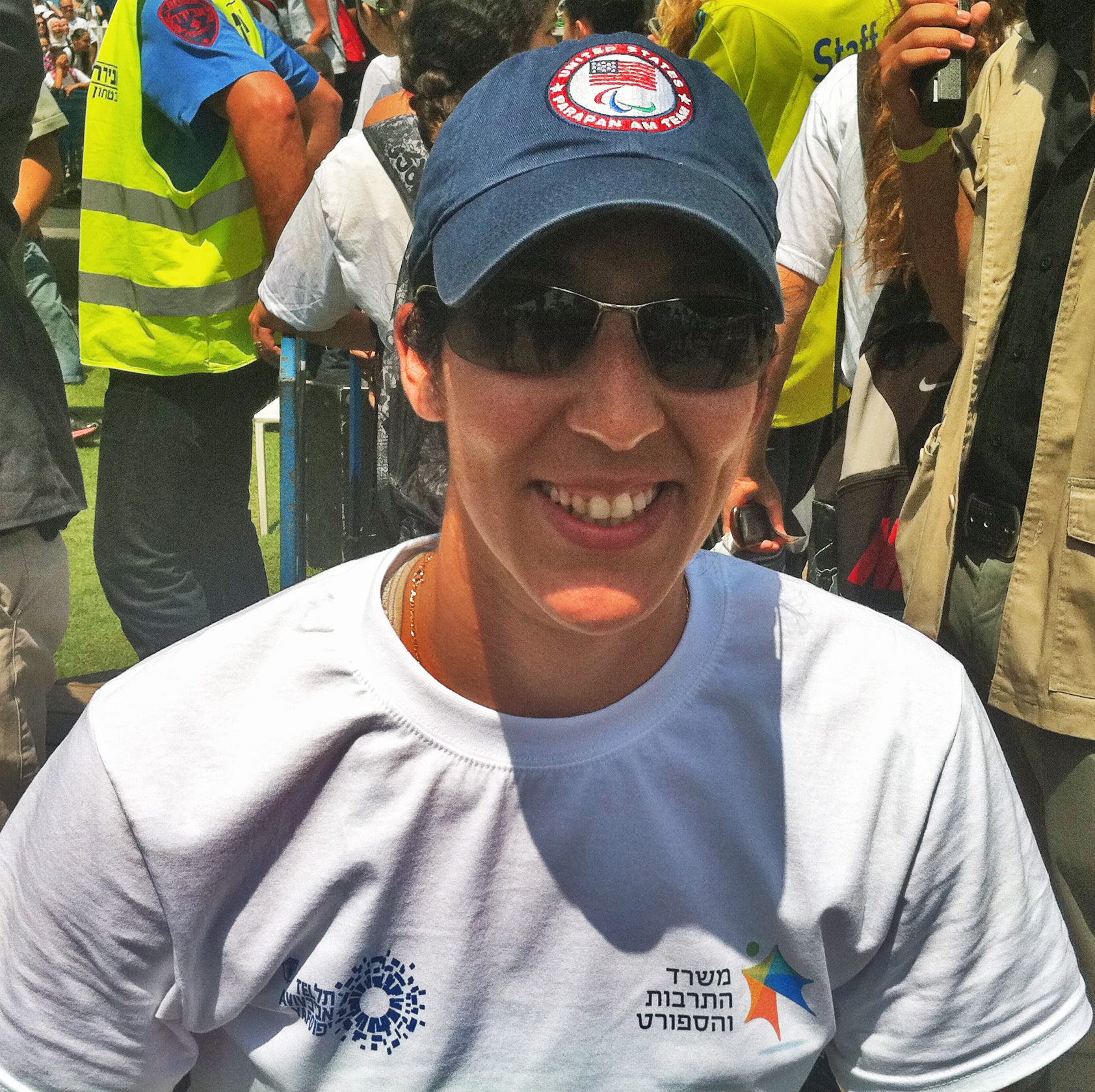 Moran Samuel in Athena Women's Walk 2012